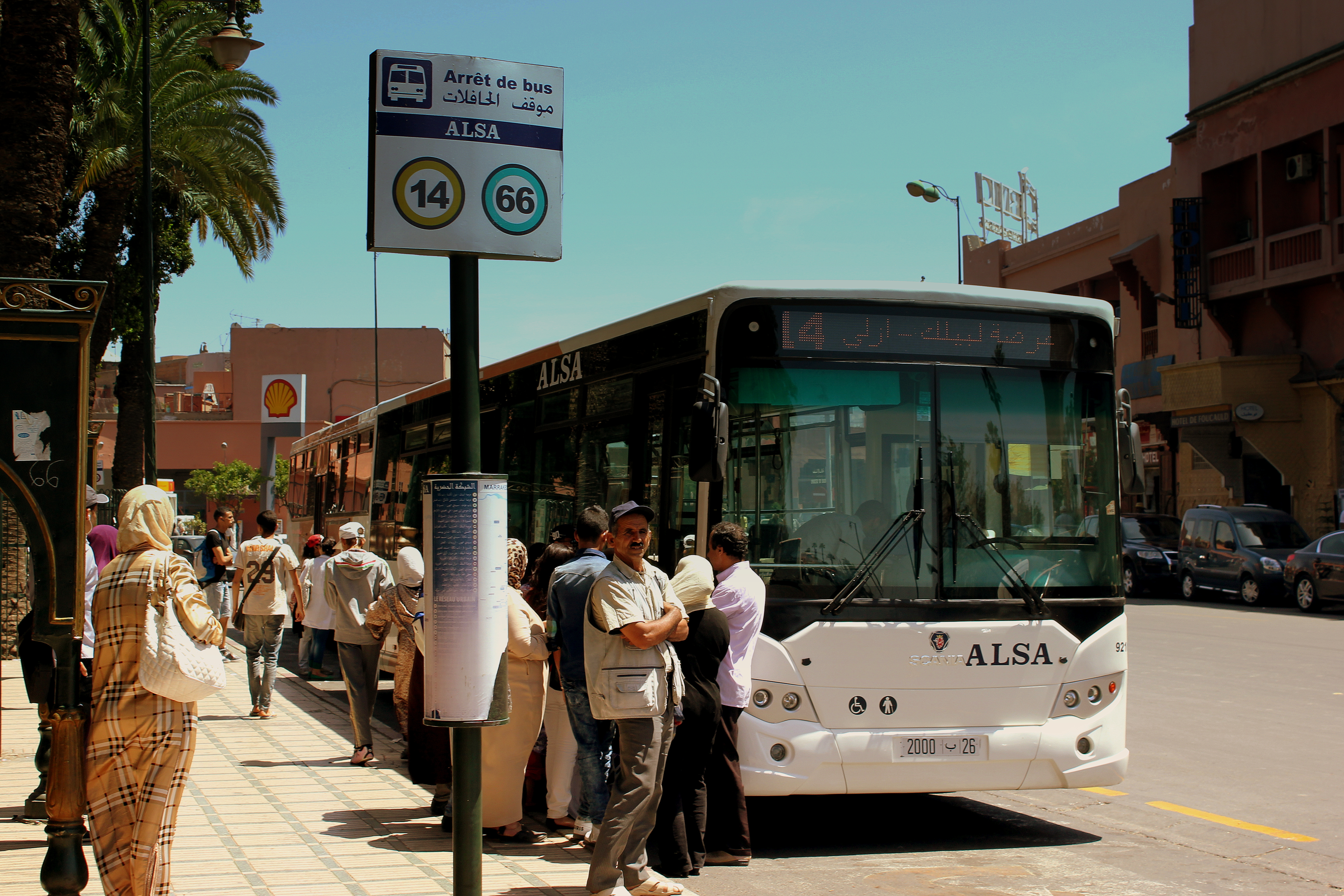 ALSA CITY BUS AT JEMAA EL FNA SQUARE MARRAKECH MOROCCO APRIL 2013